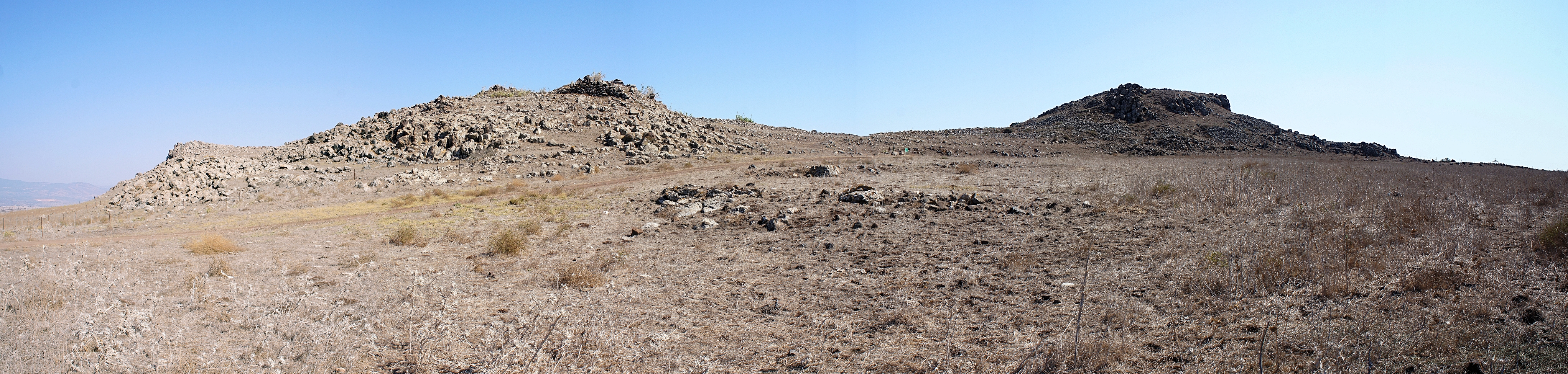 The Horns of Hattin (Northern District, Izrael).